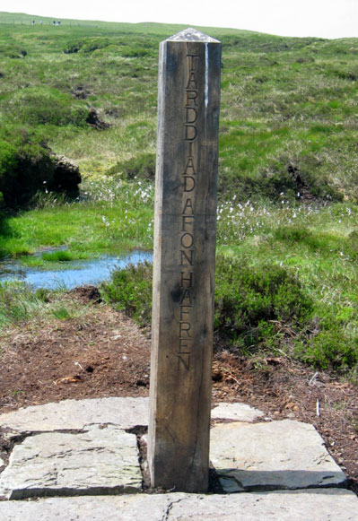 Source of the River Severn, Wales. I made this. Freely given to wikipedia.